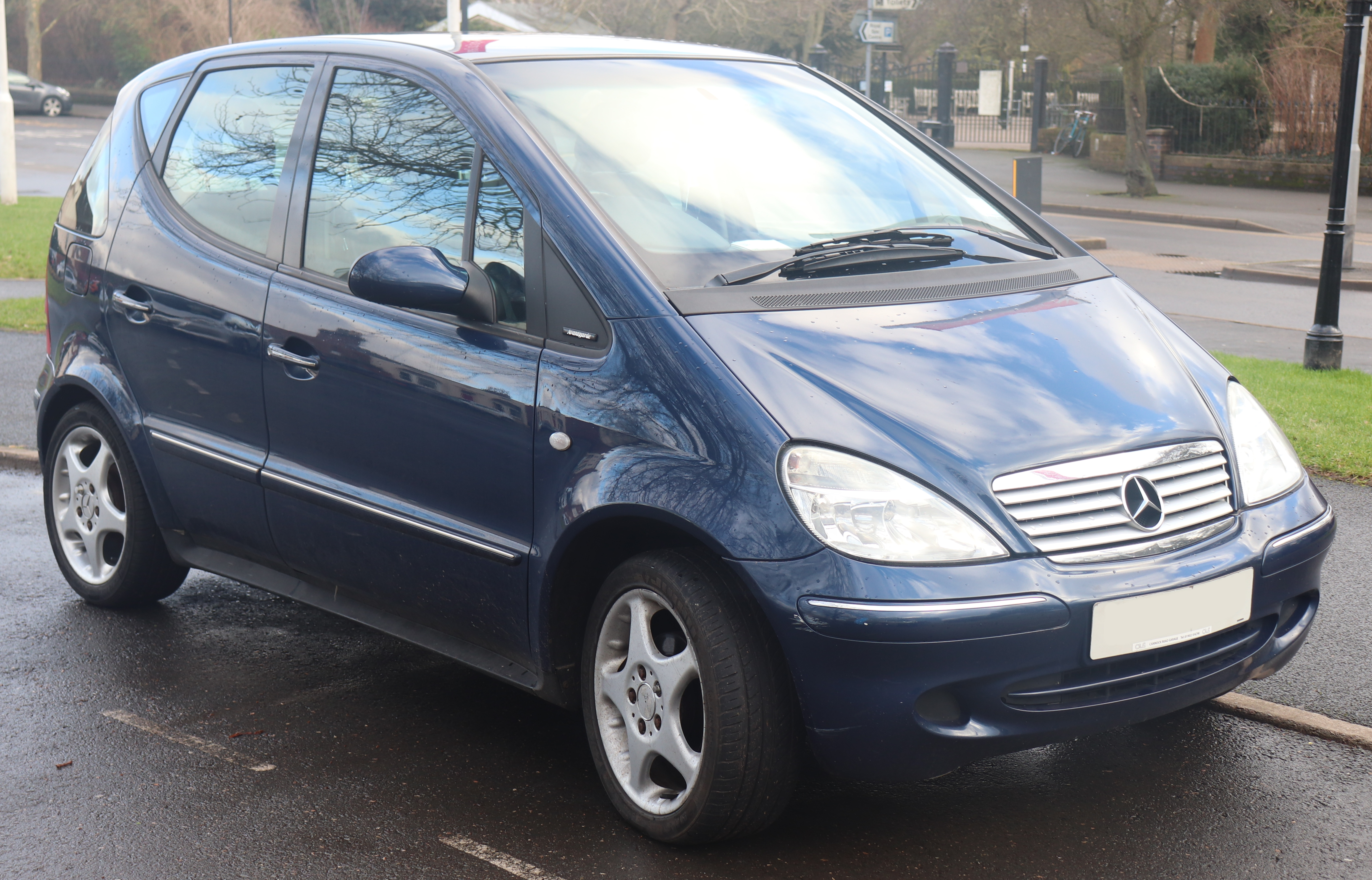 2003 Mercedes-Benz A170 CDi Avantgarde 1.7 Front Taken in Leamington Spa